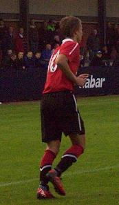 Magnus Eikrem playing for the Reserves at Ewen Fields.